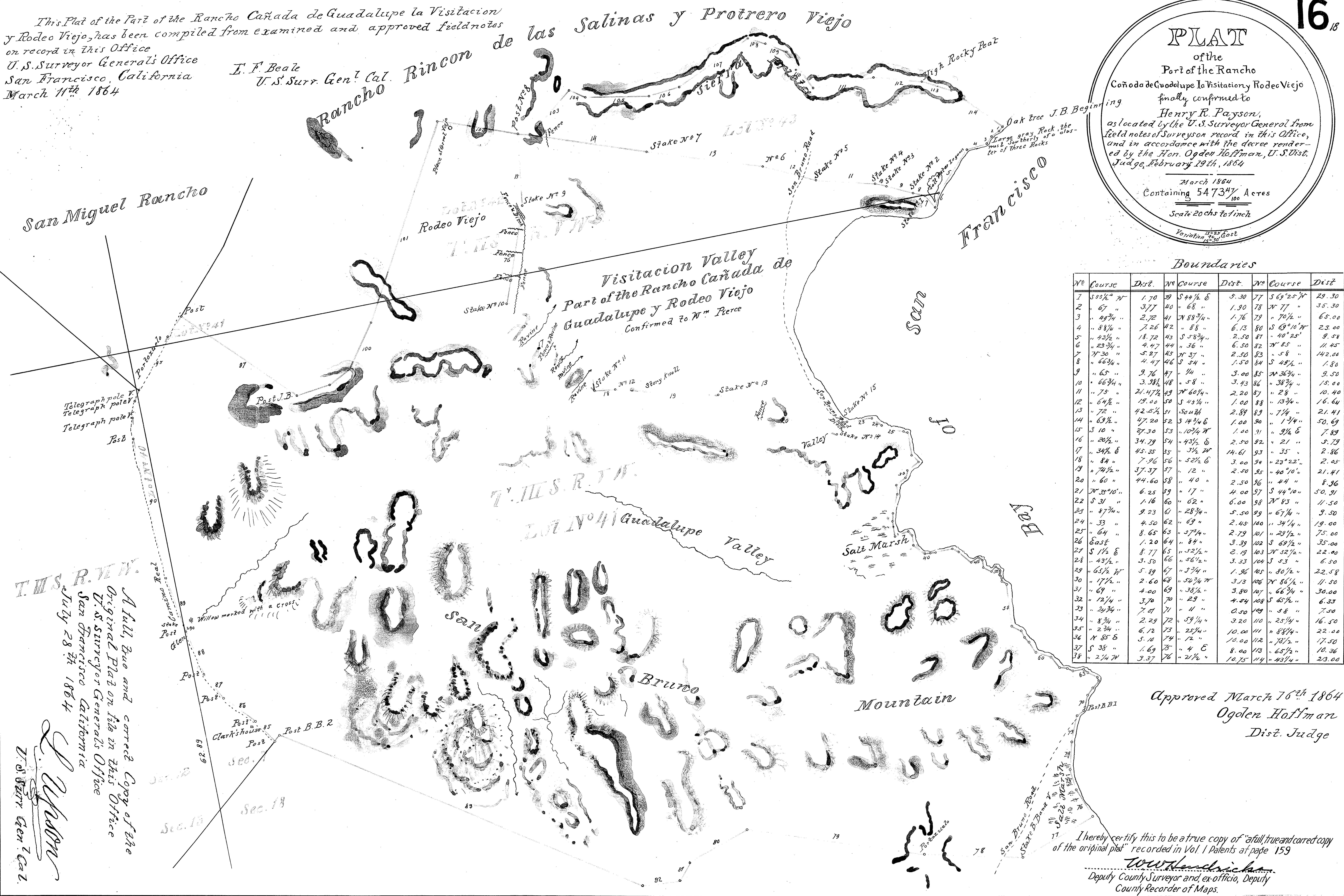 In 1865, 5,473 acres (22 km2) of the grant were patented to Henry R. Payson [6] and 943 acres (4 km2) of the grant were patented to William Pierce. Claims by Presentación Ridley were dismissed